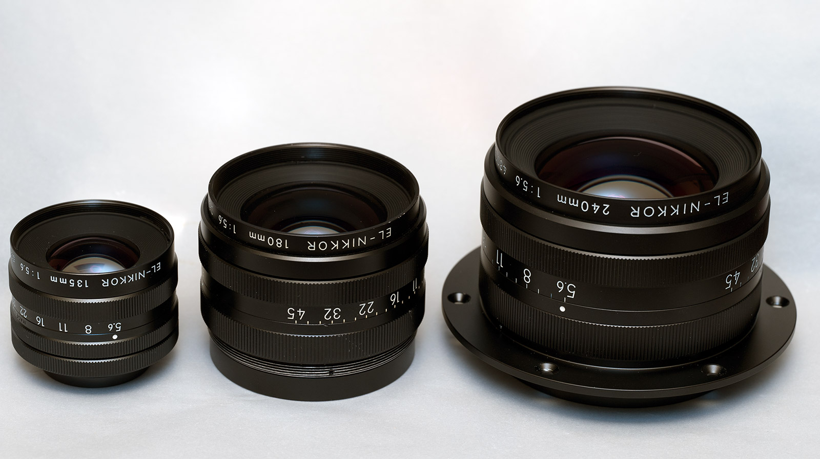 Nikon EL-NIKKOR 135/180/240mm f/5.6 A lenses